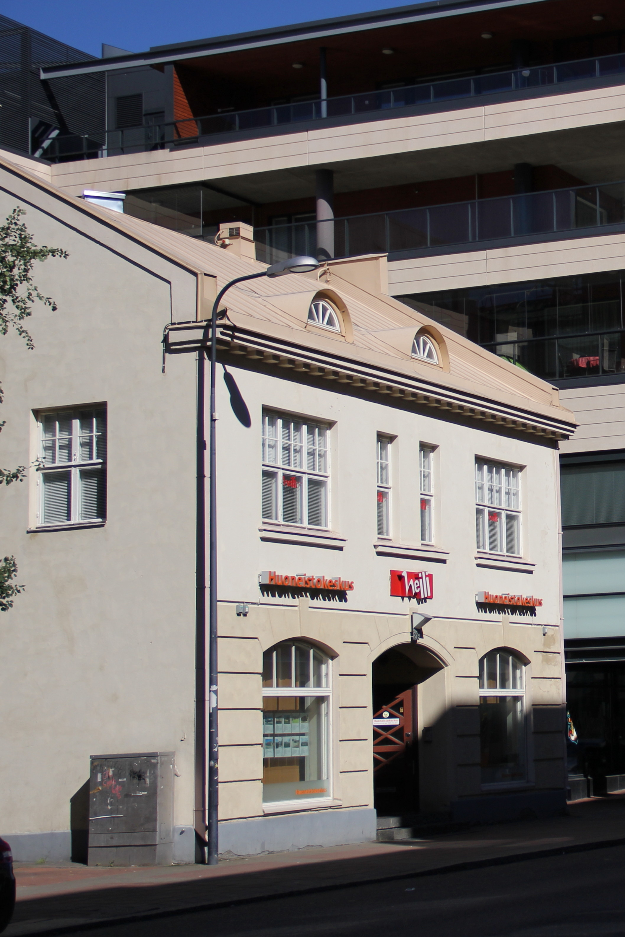 Building Torikatu 23, Joensuu, Finland.